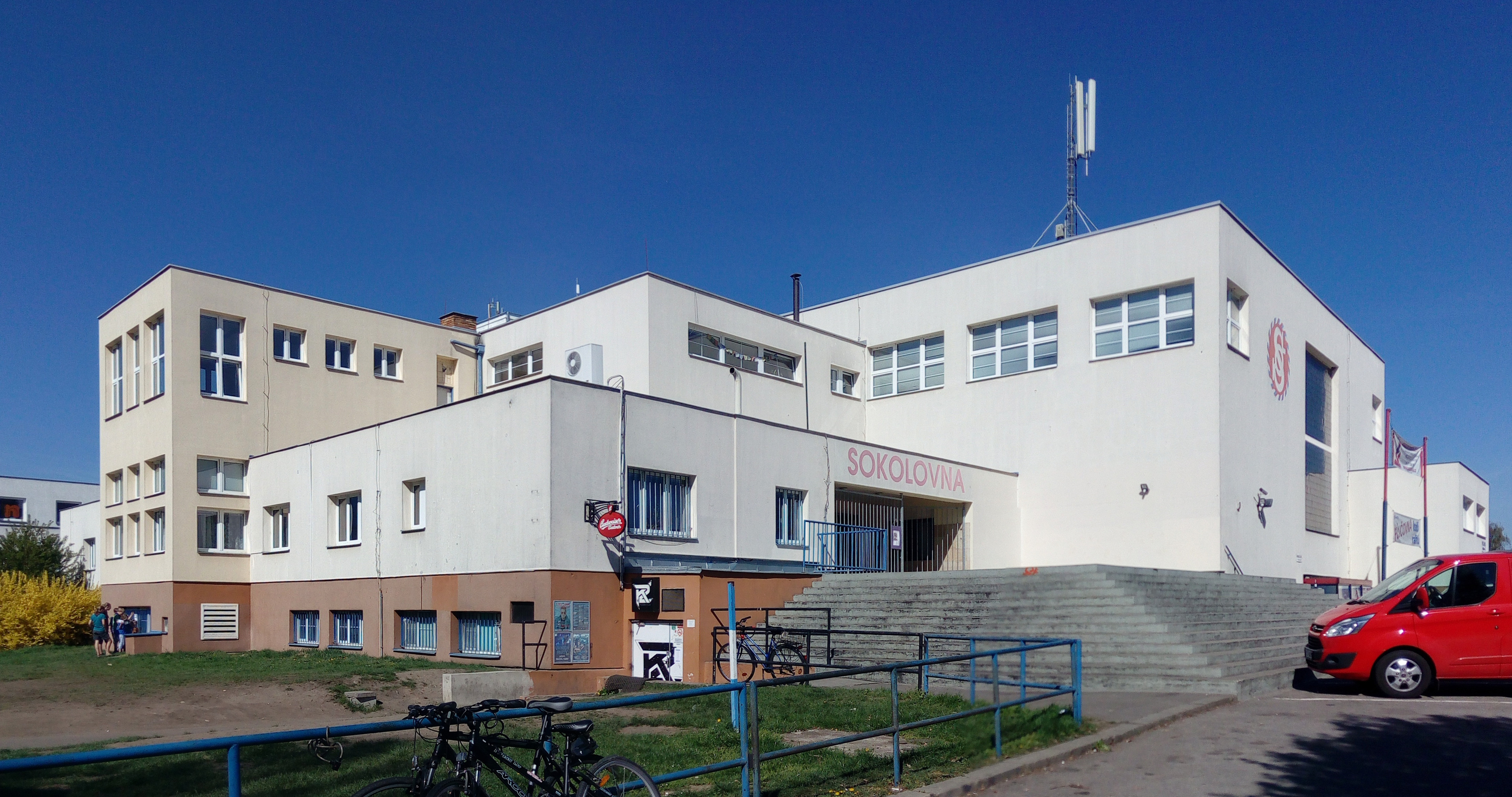 Sokol house in České Budějovice, Czech Republic